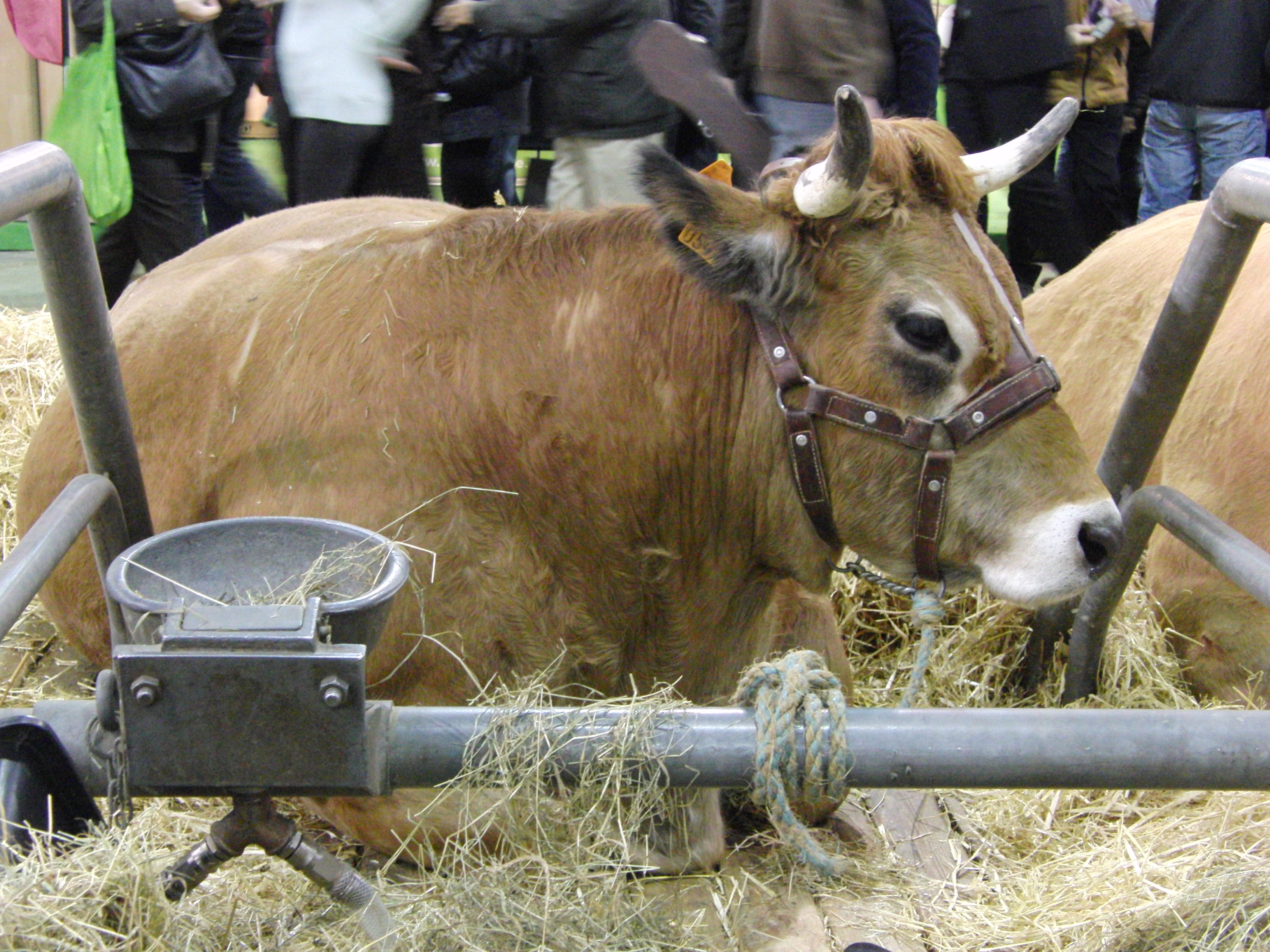 Parthenaise cow - Paris International Agricultural Show 2014, France